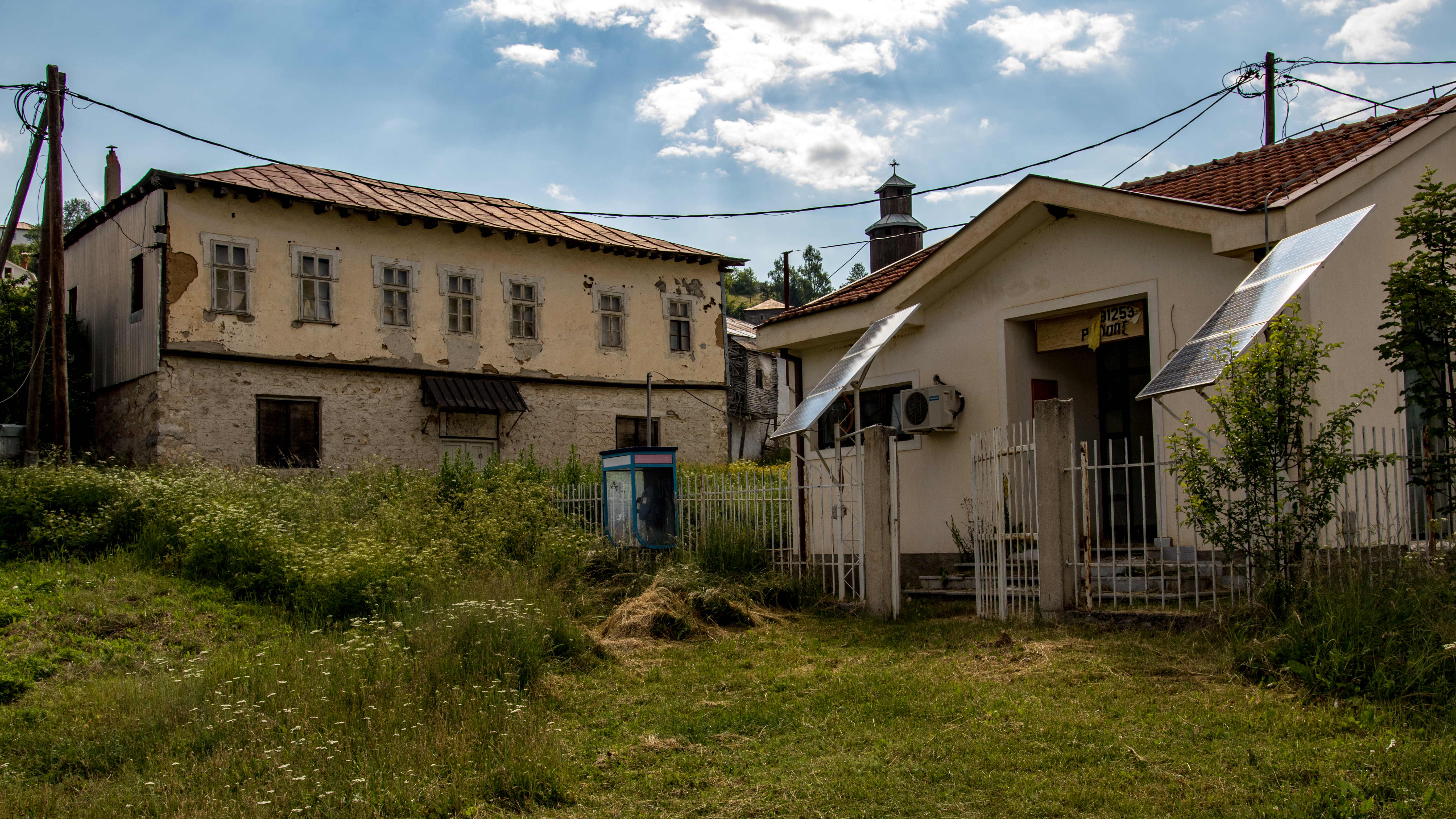 Old post office in the village Lazaropole